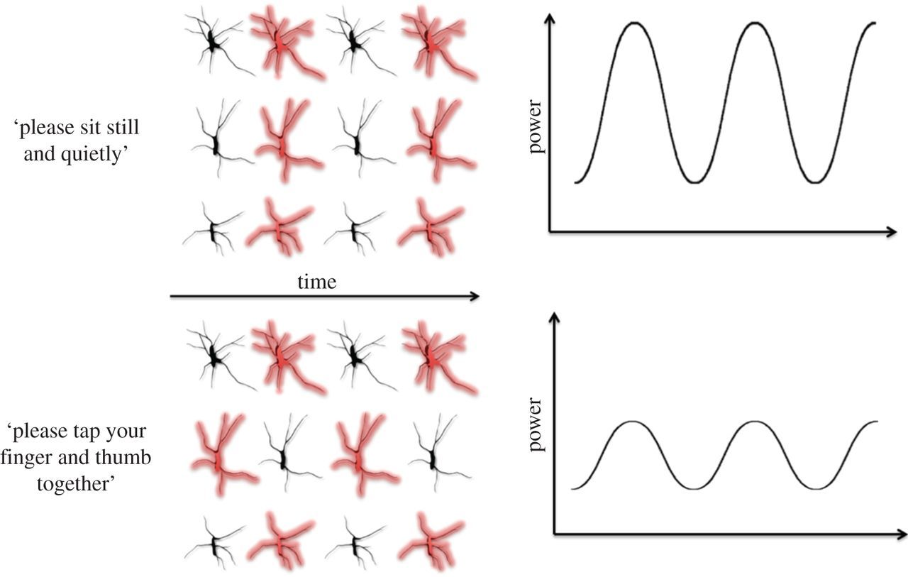 Two conditions—a baseline condition (a) and an active condition (b)—are represented here. Bold cells represent neurons firing. In the baseline condition, the participant sits motionless. When at rest, the cells in the sensorimotor cortex fire together, leading to higher power in the mu frequency band. In the active condition, the participant is asked to move, generating motor-cortex activity. This leads the sensorimotor cells to fire out of synchrony, leading to reduced mu power. Change in mu power is indexed by subtracting the baseline period from the active period. A negative value (suppression) indicates motor-cortex engagement.